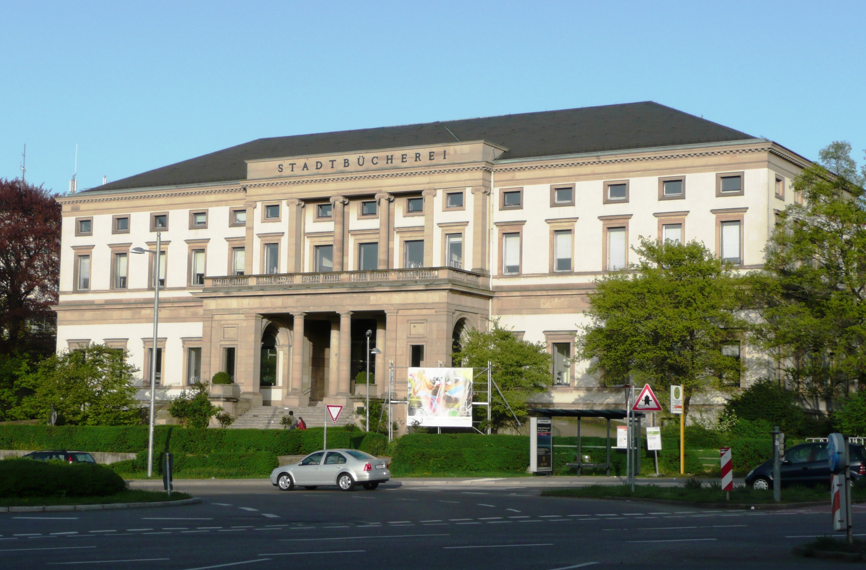 City Librairy Stuttgart